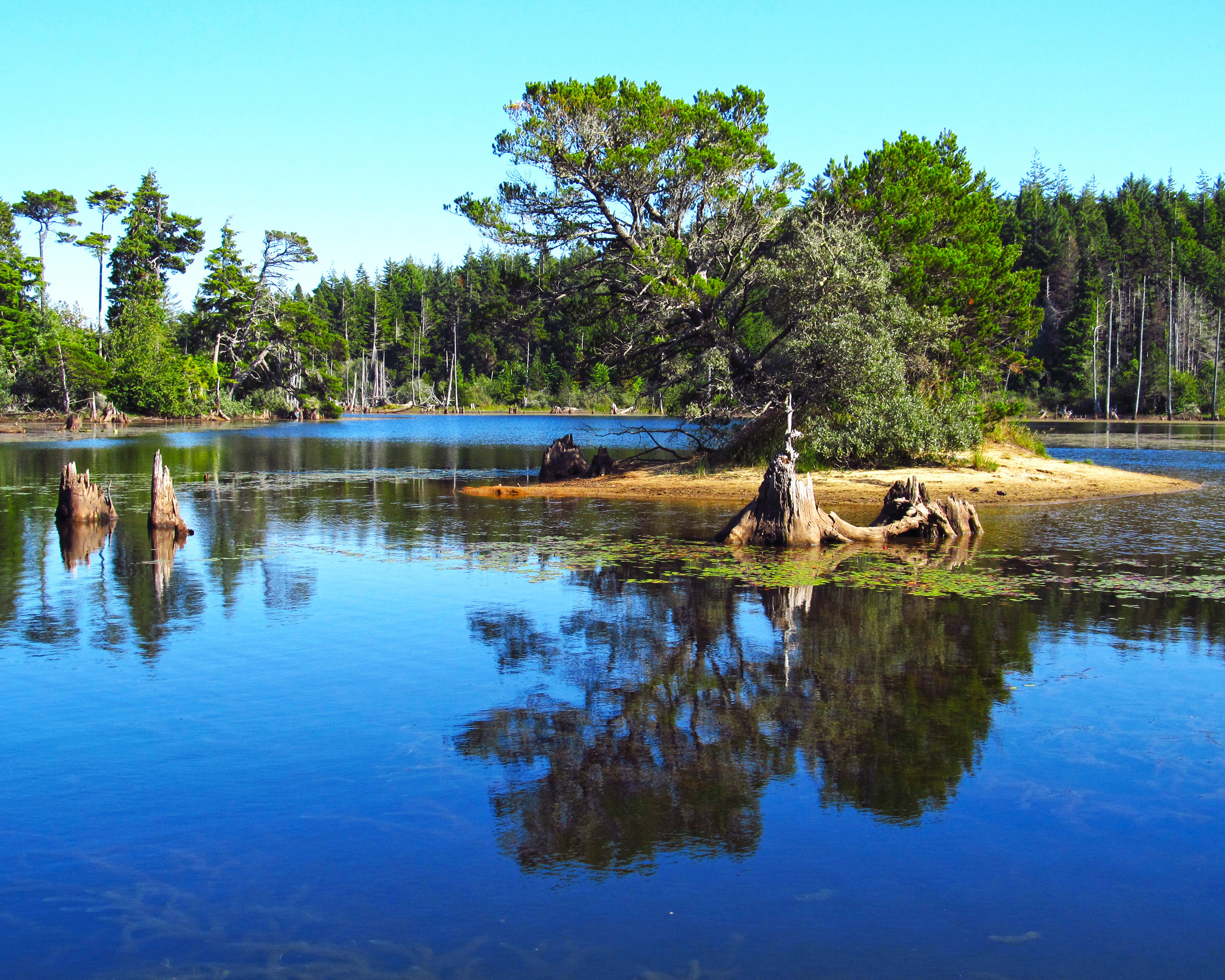 Empire Lakes is encompassed by John Topits Park in the northwestern section of Coos Bay. It is a 120 acre natural area of protected coastal dune and forest land. No motor boats are permitted on the lakes. However, there is a launch for canoes, kayaks and other non-motorized boats. There are 5.5 miles of pedestrian and cycling trails. The Empire Lakes are home to a variety of fish (Bass, Blugill, Perch, Catfish), waterfowl and birds.